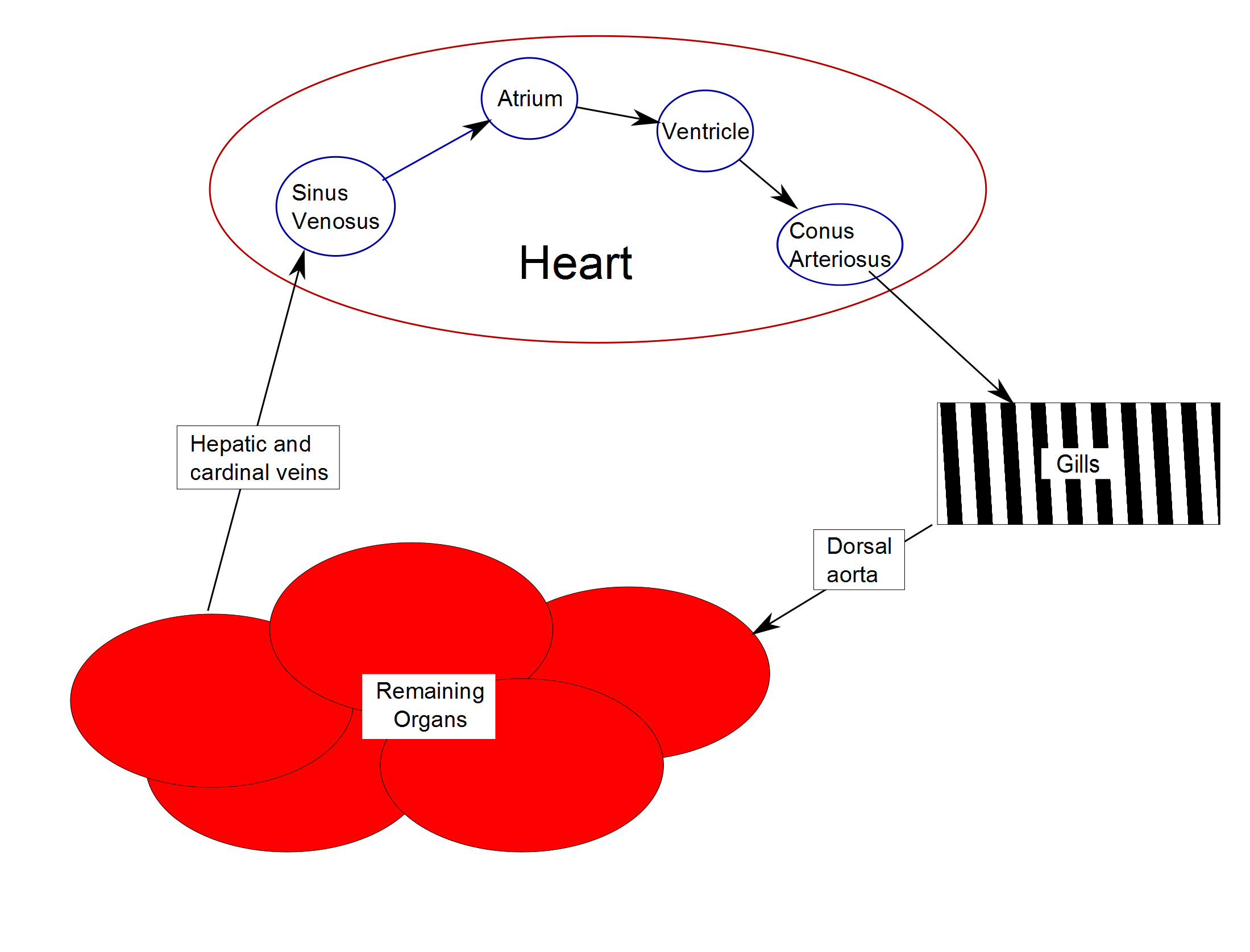 Caradiovascular cycle in fish.